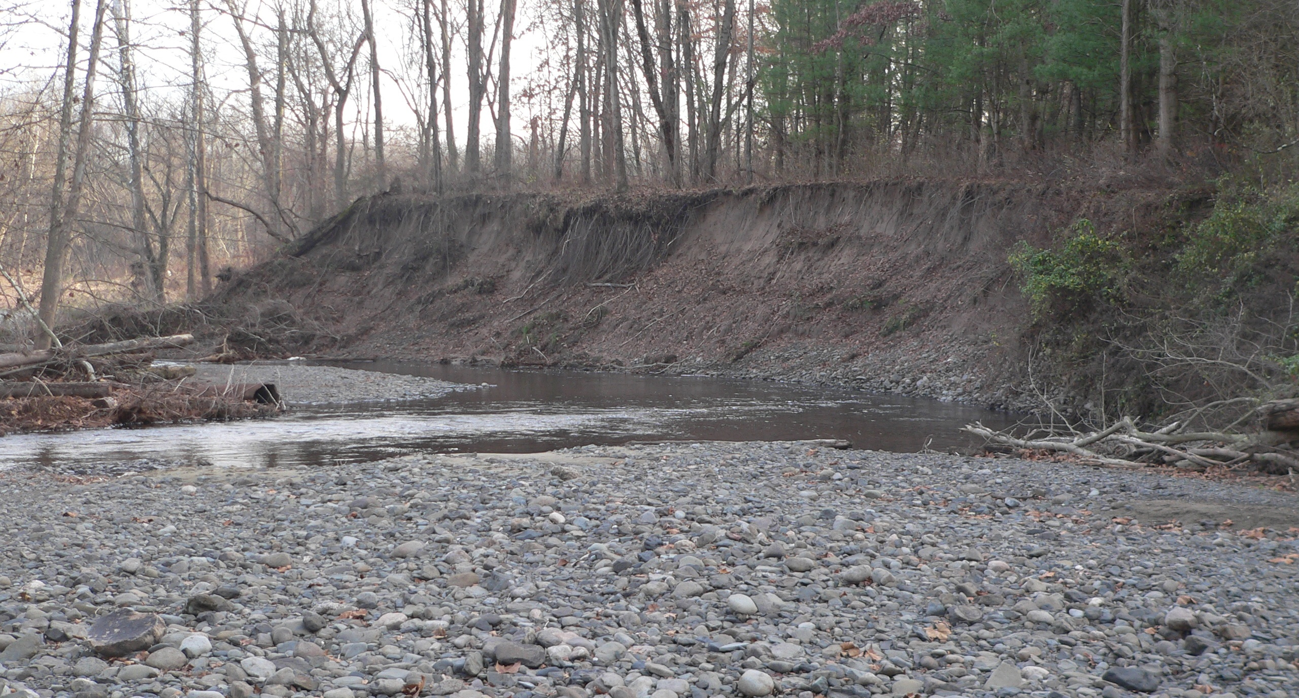 Eroded south bank of Raymondskill Creek, just above its junction with the Delaware River in Pike County, Pennsylvania. Camera is facing downstream; the sunlit trees visible through the trees in left foreground are on the far (east) bank of the Delaware, which flows from left to right. The erosion on the south bank of the creek is cutting into the Manna archaeological site, part of the Minisink Historic District.